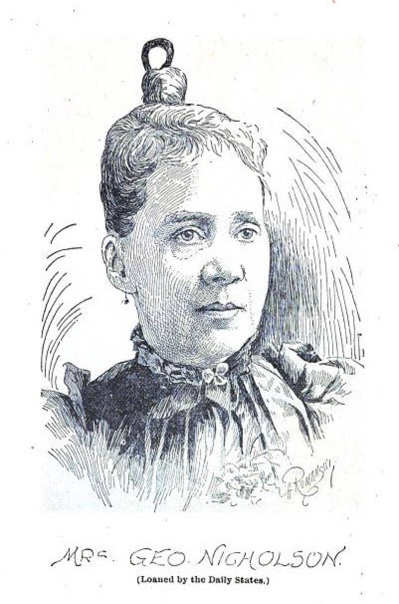 Illustration of American writer, journalist, and editor Eliza Jane Poitevent Holbrook Nicholson, better known as "Pearl Rivers" (1843-1896). Captioned in original as "Mrs. Geo. Nicholson". From Some Notables of New Orleans by May W. Mount: New Orleans, 1896, p. 1.